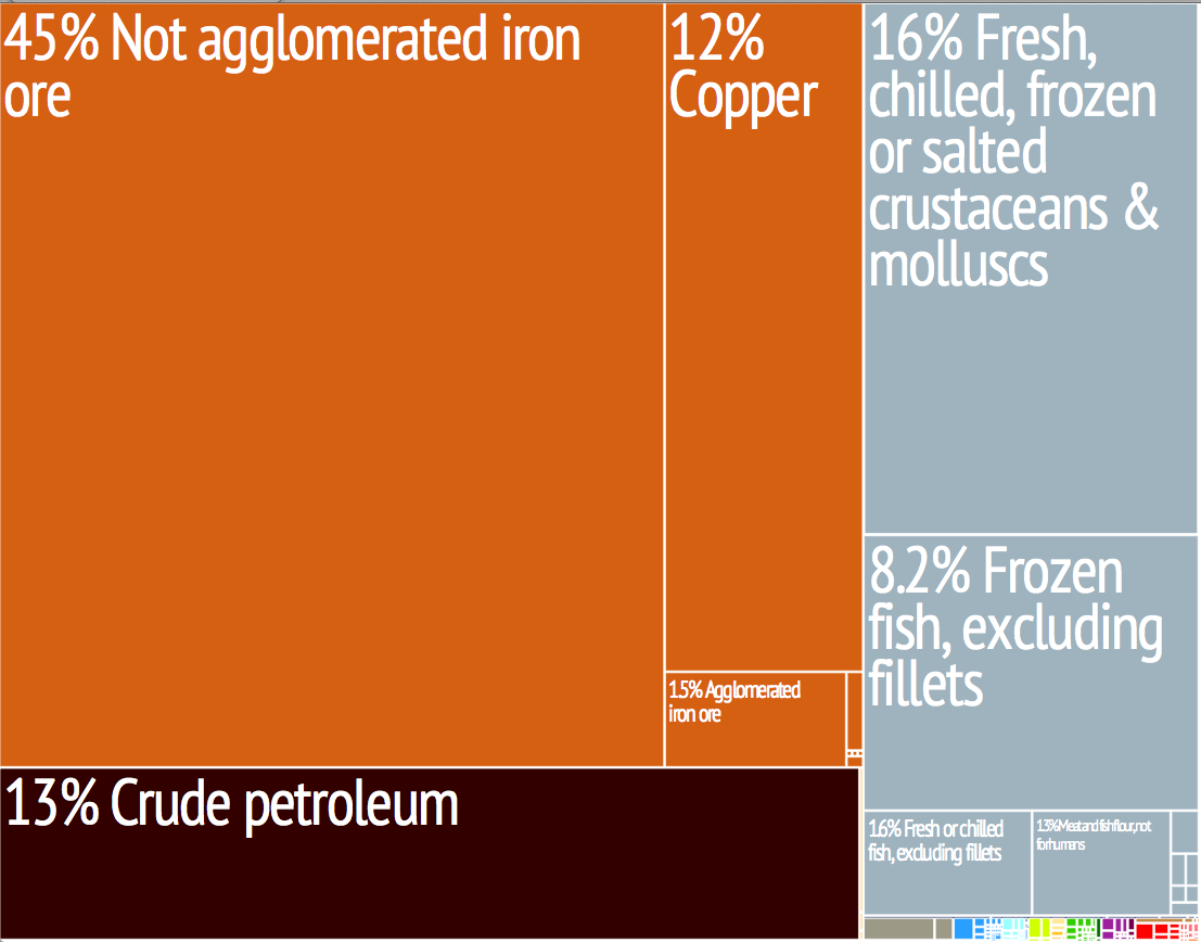 Export Trading Treemap. From MIT/Harvard Atlas of Economic Complexity